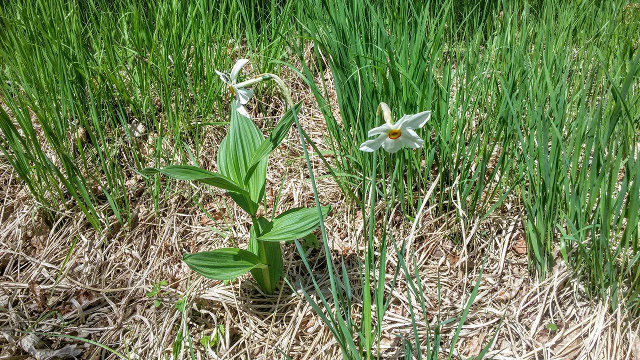 Daffodil (Narcissus poeticus ssp. radiiflorus) in the ”Daffodil Meadow” Nature Reserve, Brașov County, Romania